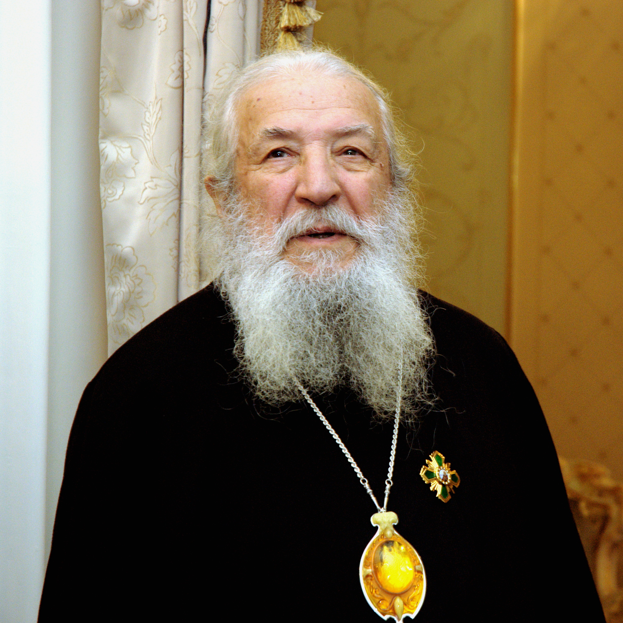 Metropolitan Laurus in the residence of Patriarch of Moscow and All Russia in Peredelkino (Moscow), February 28, 2008.